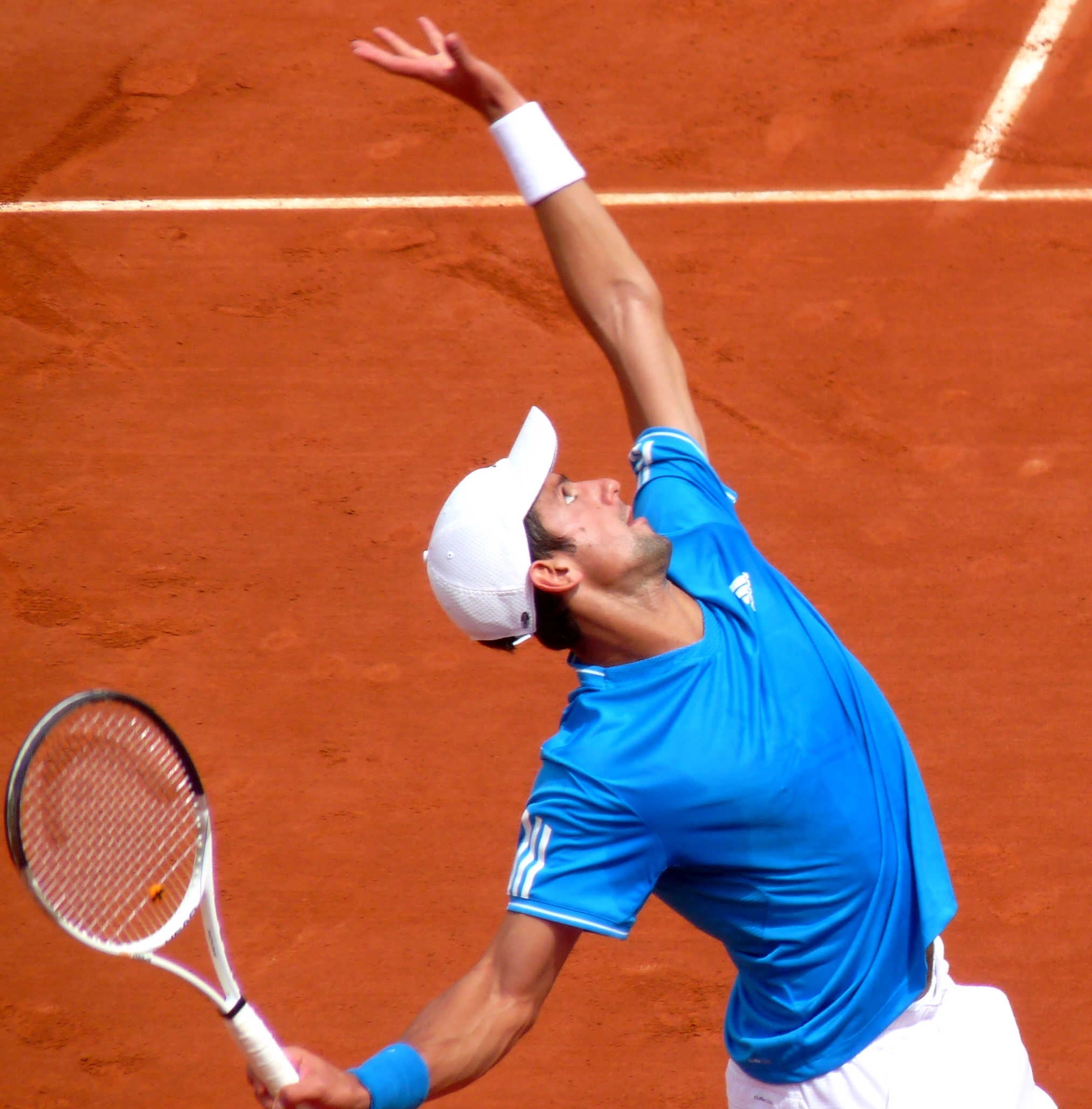 Novak Đoković against Sergiy Stakhovsky in the 2009 French Open second round